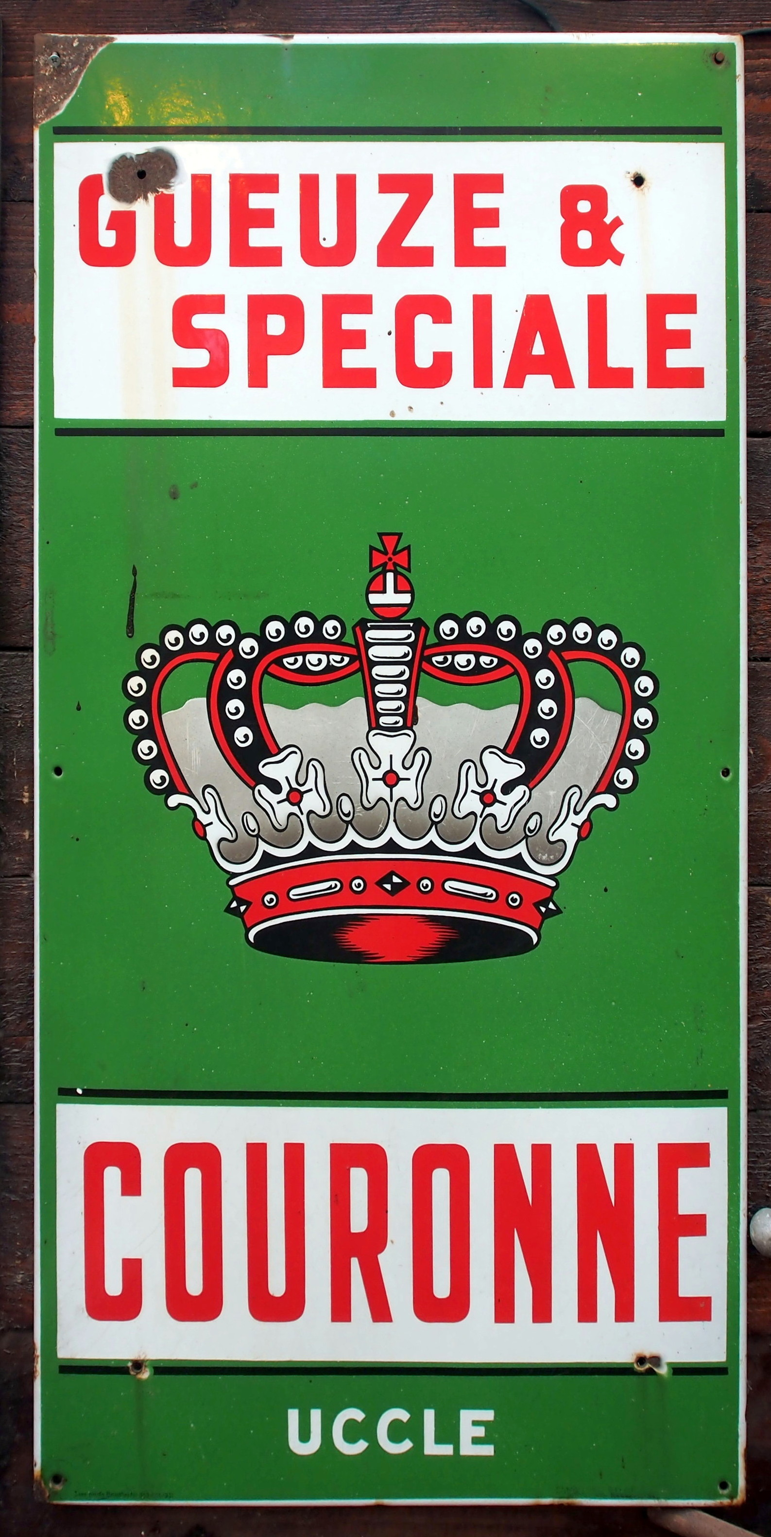 Photographed at the Bierreclame Museum Haagweg, Breda, The Netherlands. Very old advertisment of a beer company that does not exist any more.